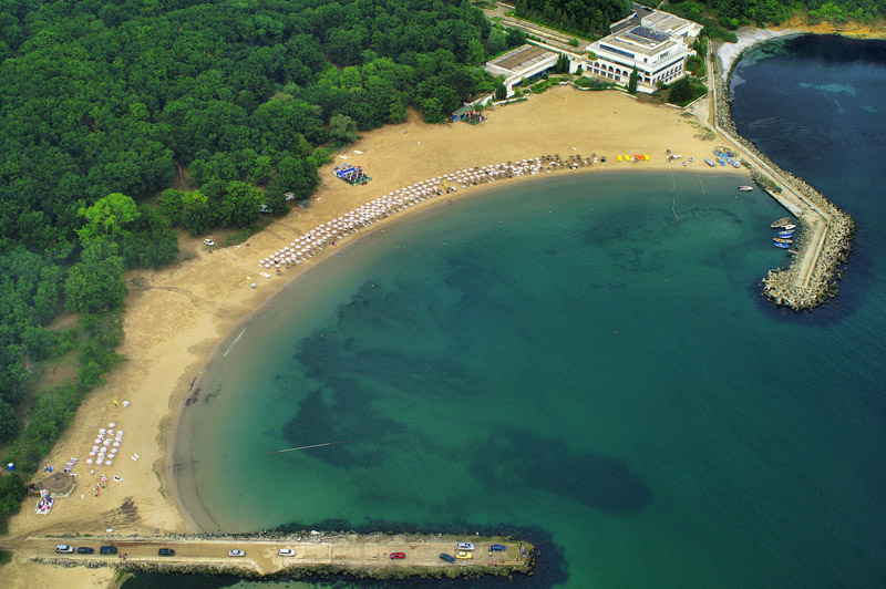 Perla beach,Primorsko